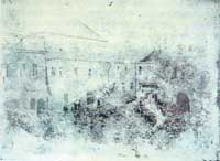 Ignác Florus Stašek: Post office in Czech town Litomyšl